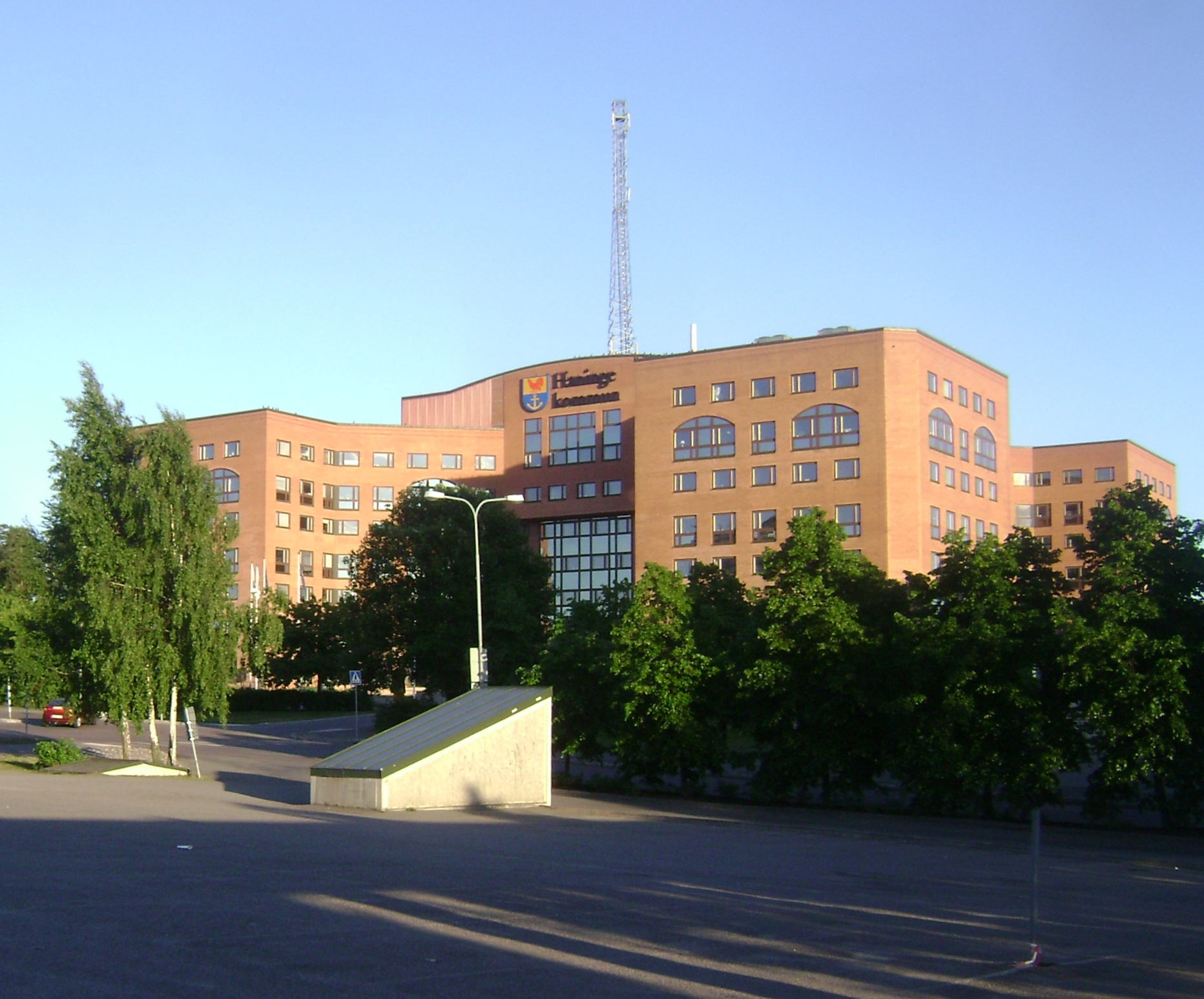 Sweden. Stockholm County. Haninge Municipality. Handen